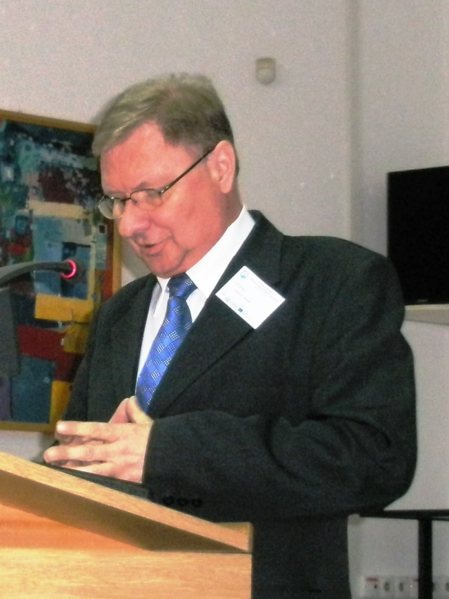 Tadeusz Stegner, Polish professor, having lecture in Cieszyn